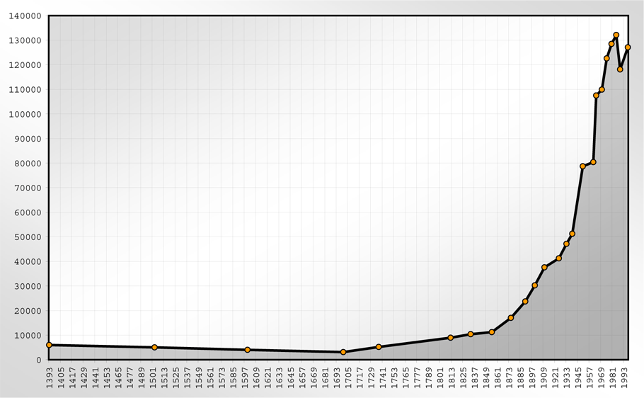 This image shows the population statistics of Göttingen (Germany).